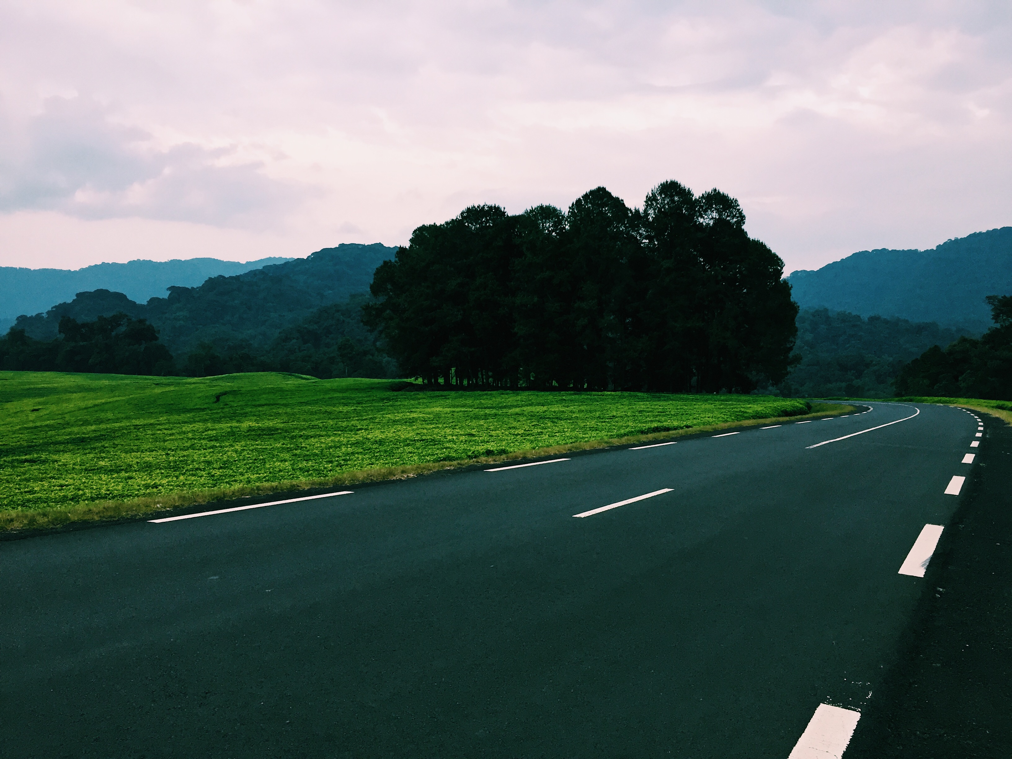 This photo shows the entrance of Nyungwe forest in Rwanda This is an image with the theme "Play" from: Rwanda